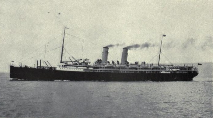 The steamship Osterley was an ocean liner owned by the Orient Steam Navigation Company, launched 26 January 1909.